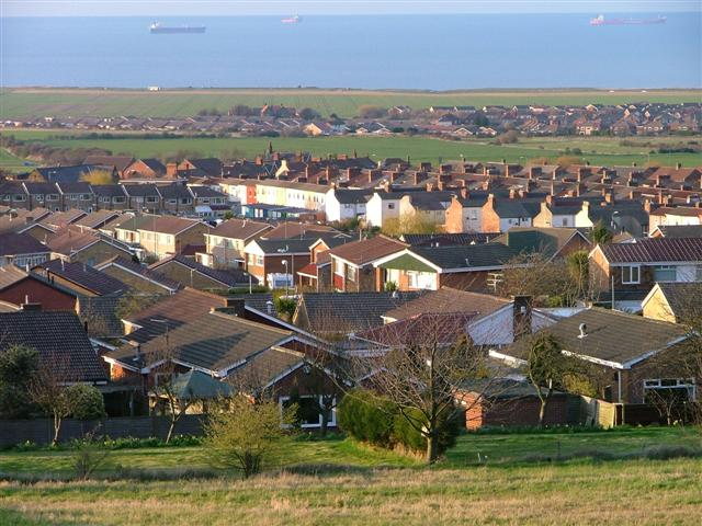 New Marske, North Yorkshire, From Errington Wood